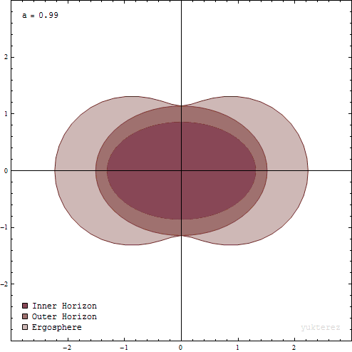 Diagram of the static limit (ergosphere) and the inner and outer event horizons of a rotating black hole. "a" is the Spin parameter of the rotating black hole; with a low spin-parameter the ergosphere converges to an ellipsoid, while with a high spin-parameter it resembles a pumpkin-shape. The axes are in units of GM/c². Animation: click here to start